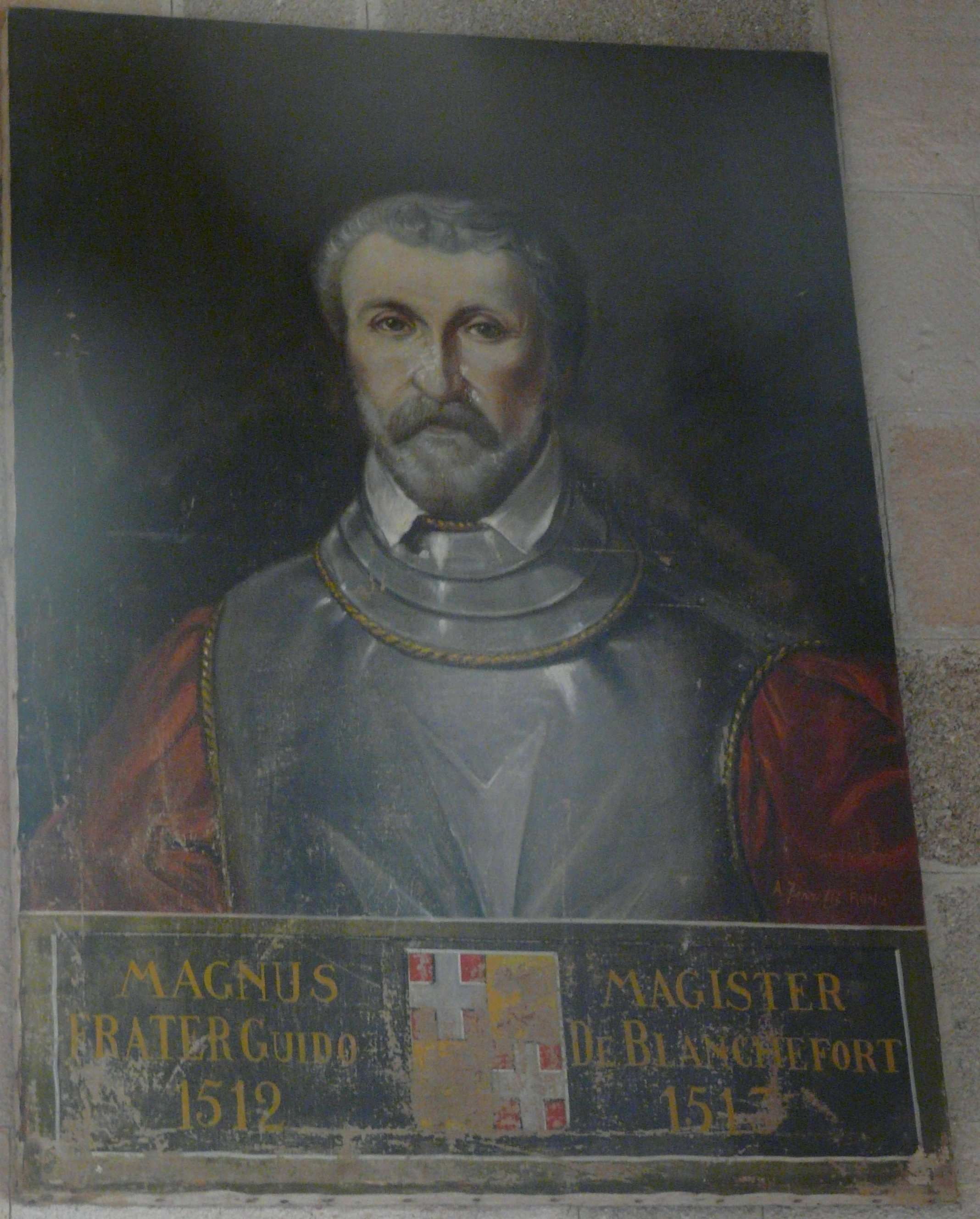 Palace of the Grand Master of the Knights of Rhodes